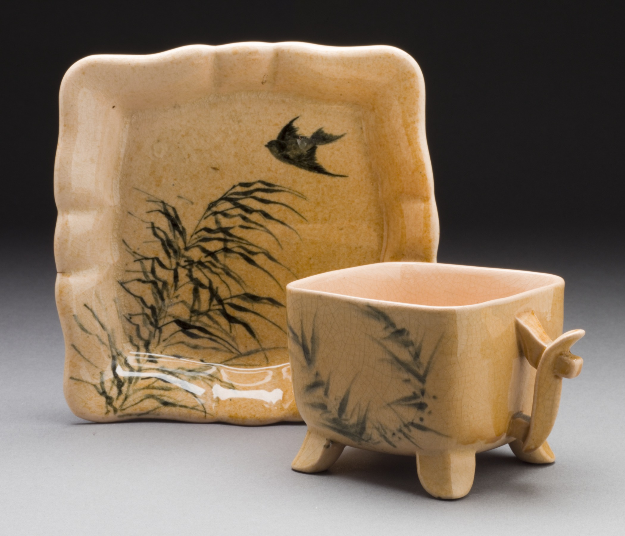 United States, 1884 Collection: Ellen Palevsky Cup Collection Furnishings; Serviceware Hand painted earthenware Cup height: 2 1/4 in. (5.72 cm), Diameter: 3 in. (7.62 cm); Saucer: 4 3/4 x 5 1/8 (12.07 x 13.02 cm) Gift of Max Palevsky (AC1998.265.17.1-.2) Decorative Arts and Design